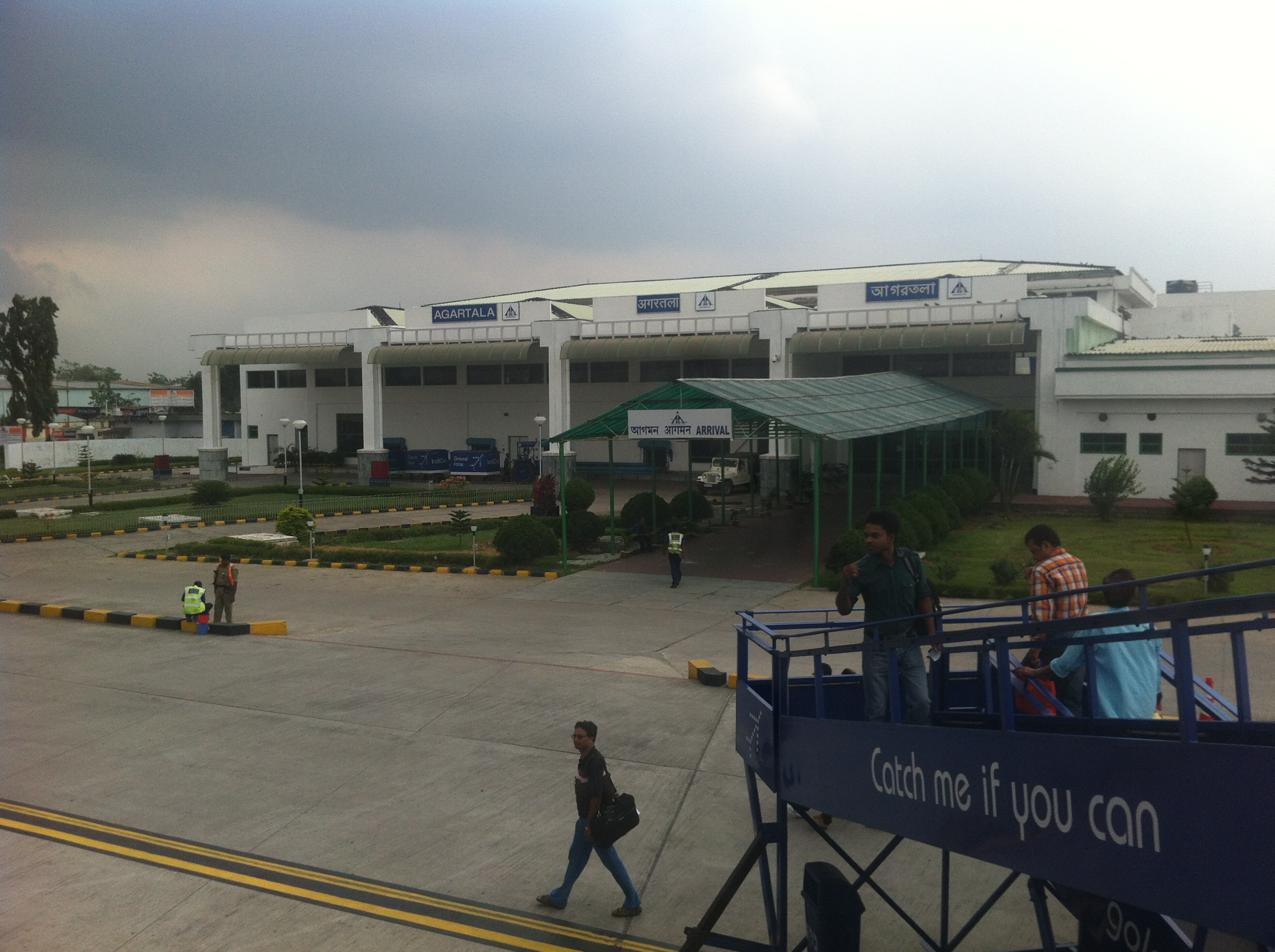 This is the Singherbill Airport in Agartala. IT is about 12 kms from Agartala city